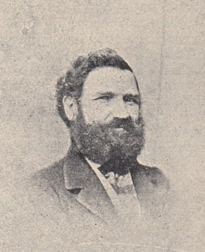 Franz Hruschka before 1888 Photographs of Franz Hruschka (1819-1888) taken prior to 1888